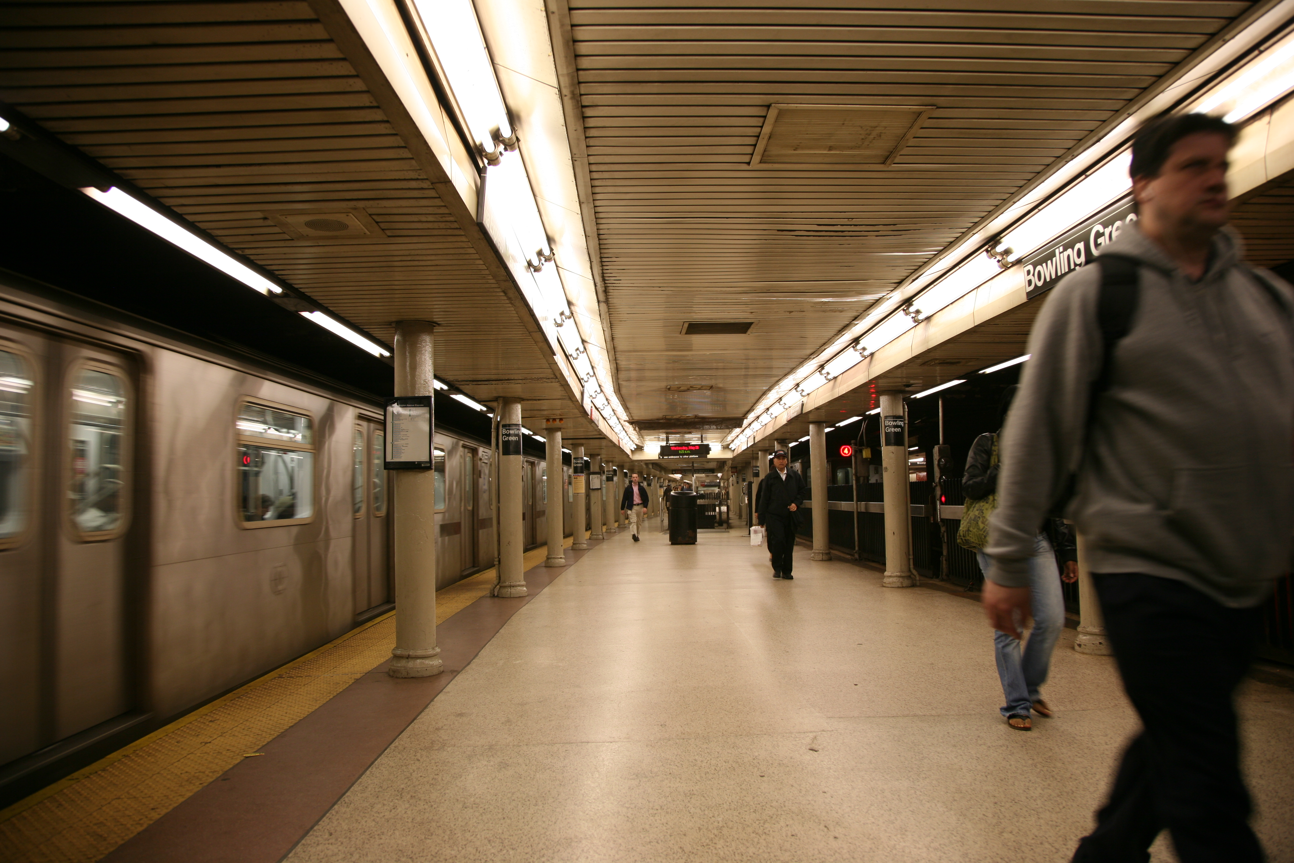 Bowling Green, New York City subway station